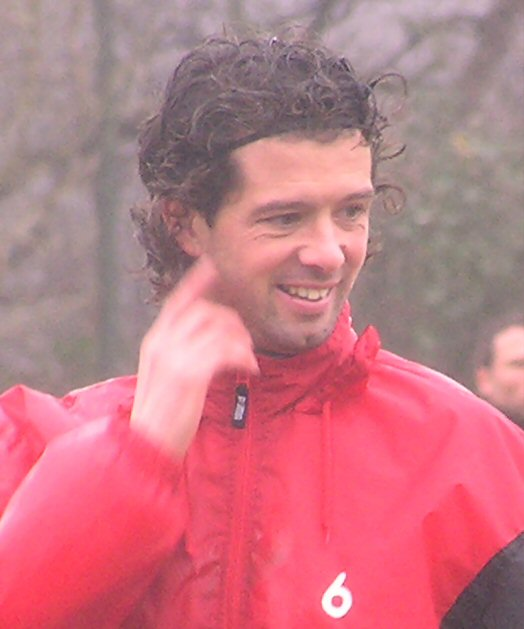 Dutch footballer Jean-Paul de Jong